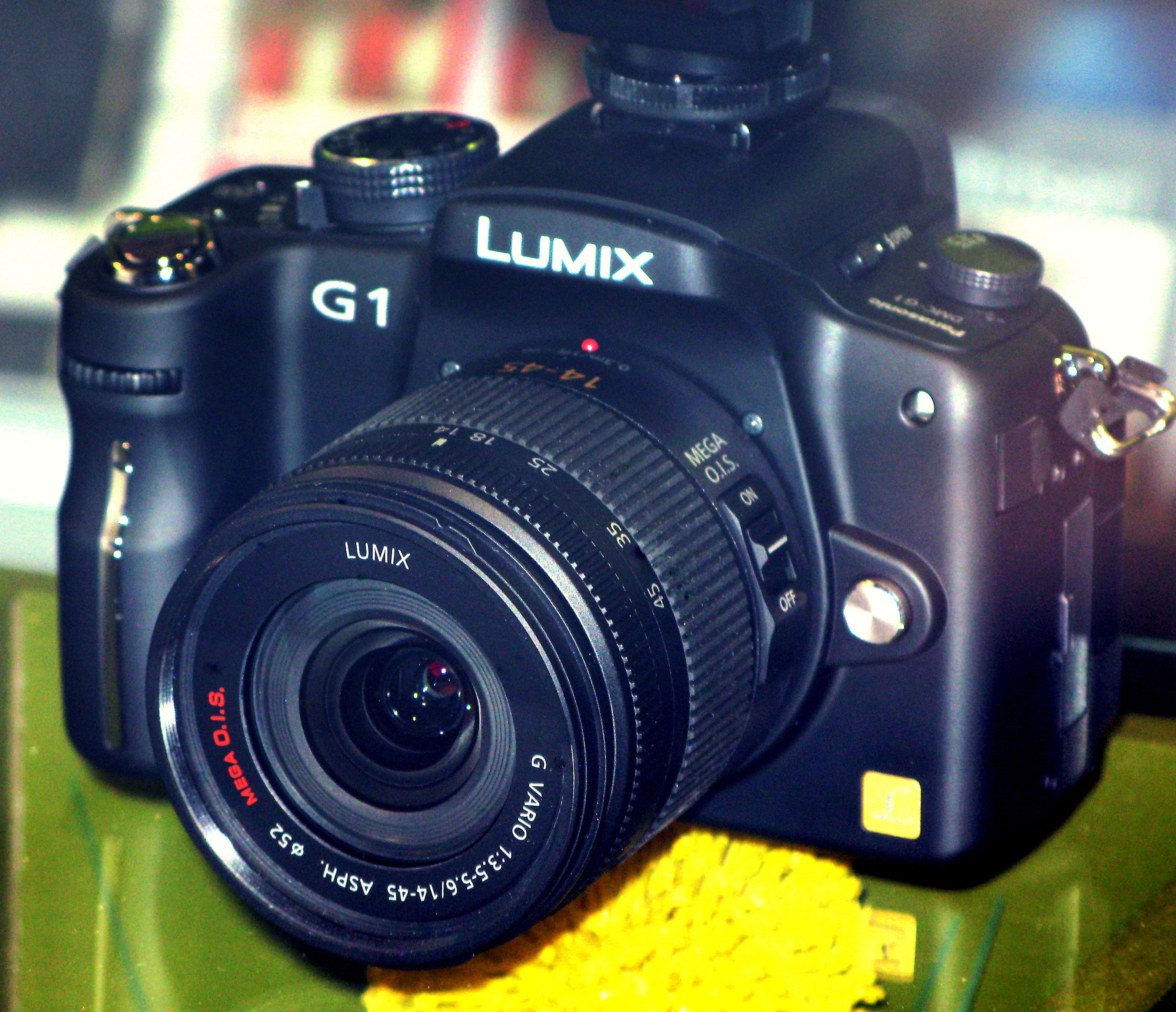 Panasonic Lumix DMC-G1 digital camera